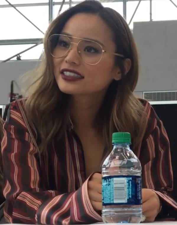 American actress Jamie Chung of The Gifted, interviewed by Geeks of Doom at New York Comic Con in 2017